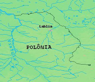 Wieprz river on the map of Poland. Source: Map of the Wieprz river in Portuguese. PD map taken from Attēls:Upe Vepsa.png and modified by me. Uploaded by: User:Bonas